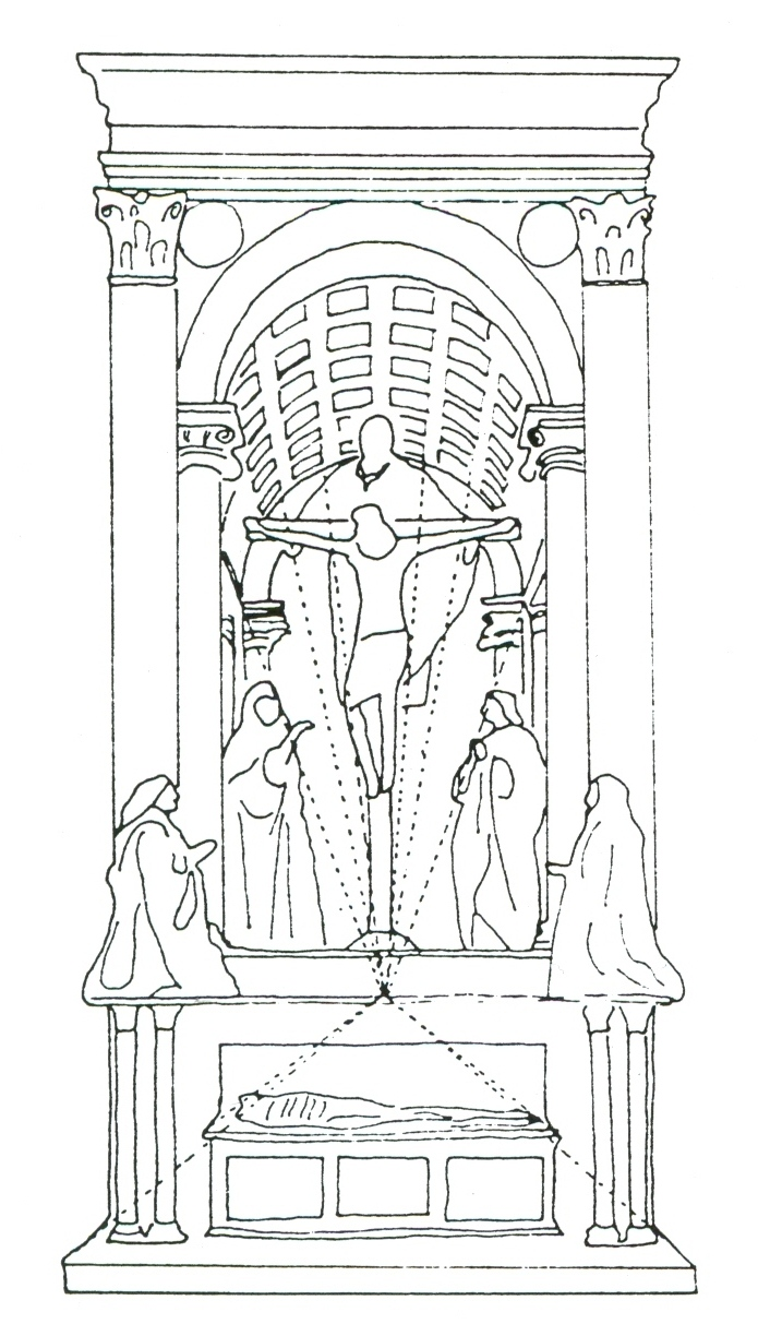 Masaccio._Trinity._Scheme_of_linear_perspective